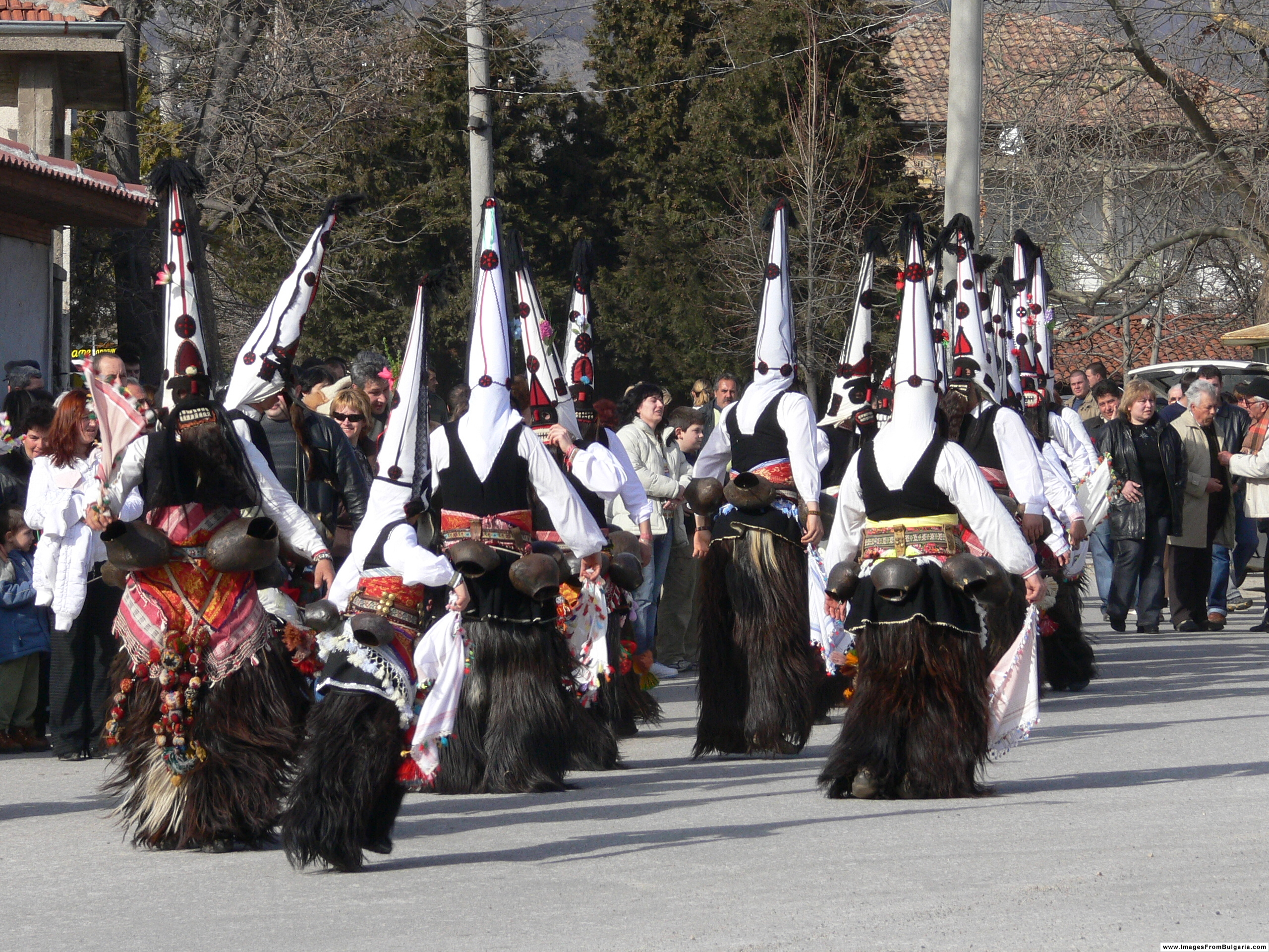 Kukeri in the Bulgarian village Vasil Levski, Plovdiv district.